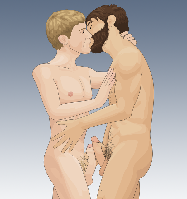 Illustration of two men engaged in frot